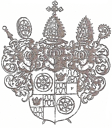 Coat of arms of Johann Schweikhard von Kronberg, elector of Mainz in 1605